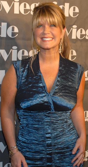 Singer Natalie Grant at the 16th Annual MovieGuide Faith and Values Awards Gala.